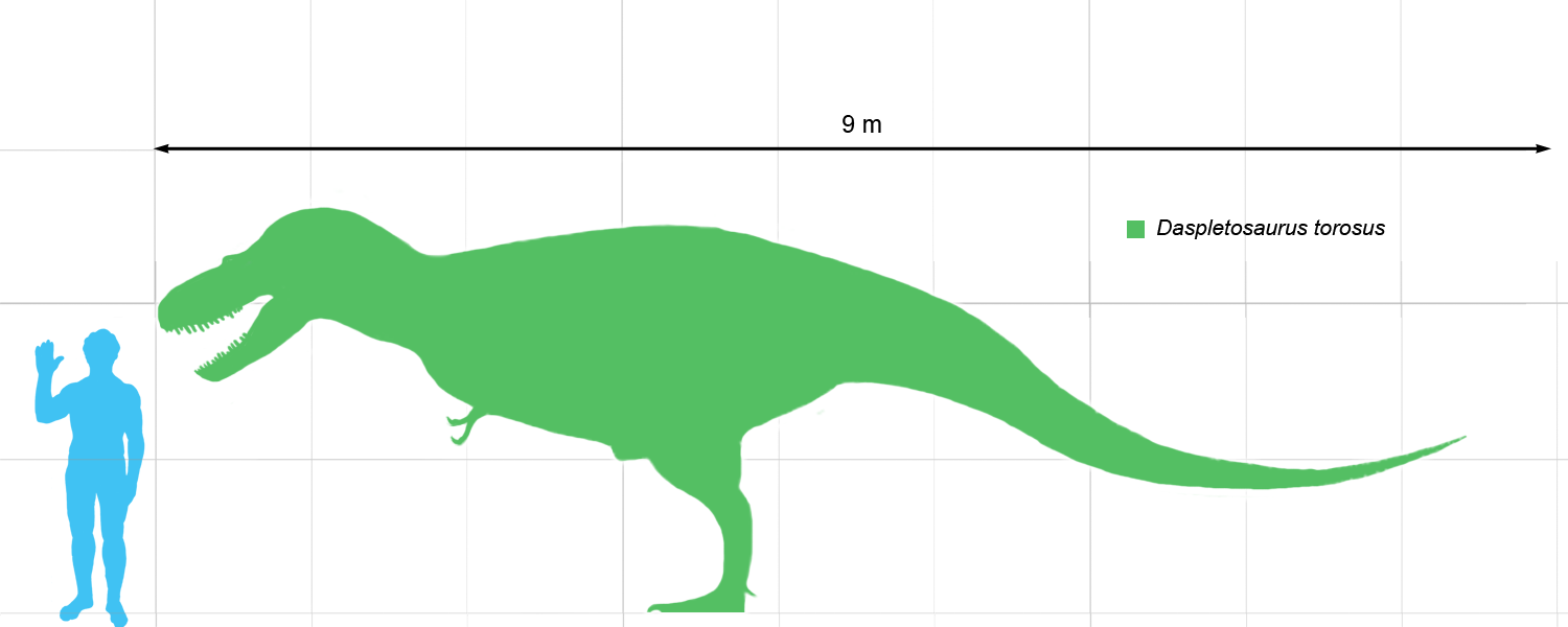 Scale chart for Daspletosaurus torosus